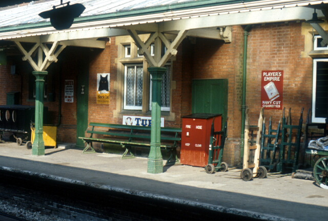 Sheffield Park railway station platform